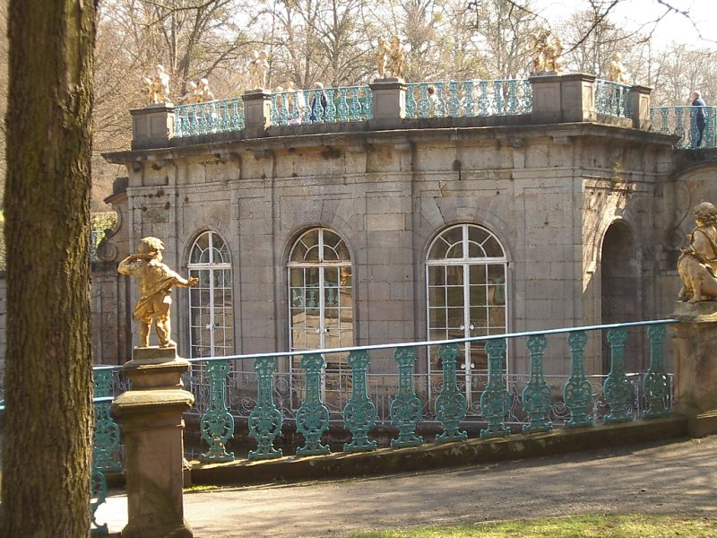 Wilhelmsthal Palace, Calden (Germany), grotta building, on the morning 2004-04-12, from southwest